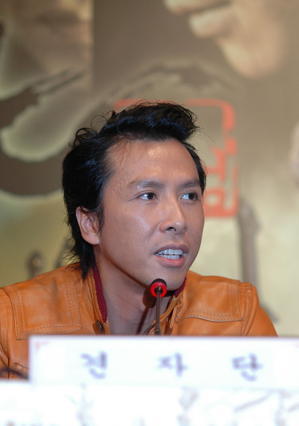 Donnie Yen in Seoul for a press conference of his movie Seven Swords